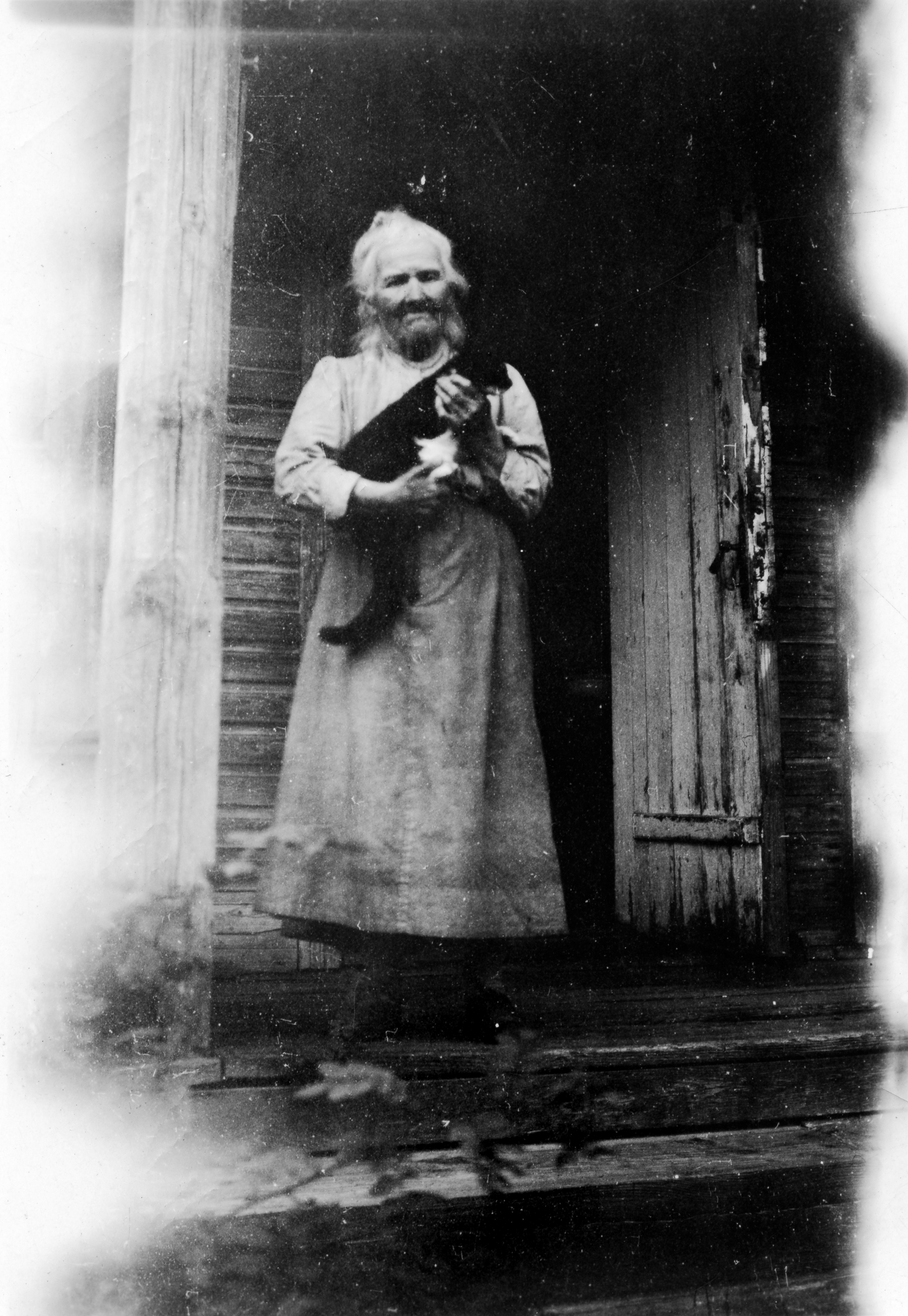 Helena Södergran med katt i famnen. Edith Södergrans samling Signum: slsa566_378 Foto: Unknown / Hagar Olsson Svenska litteratursällskapet i Finland